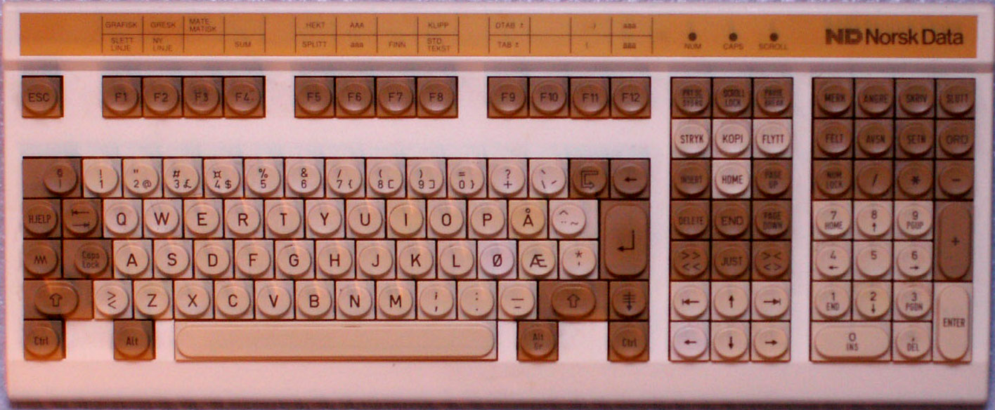 The Notis Keyboard, with special keys for easy text processing.